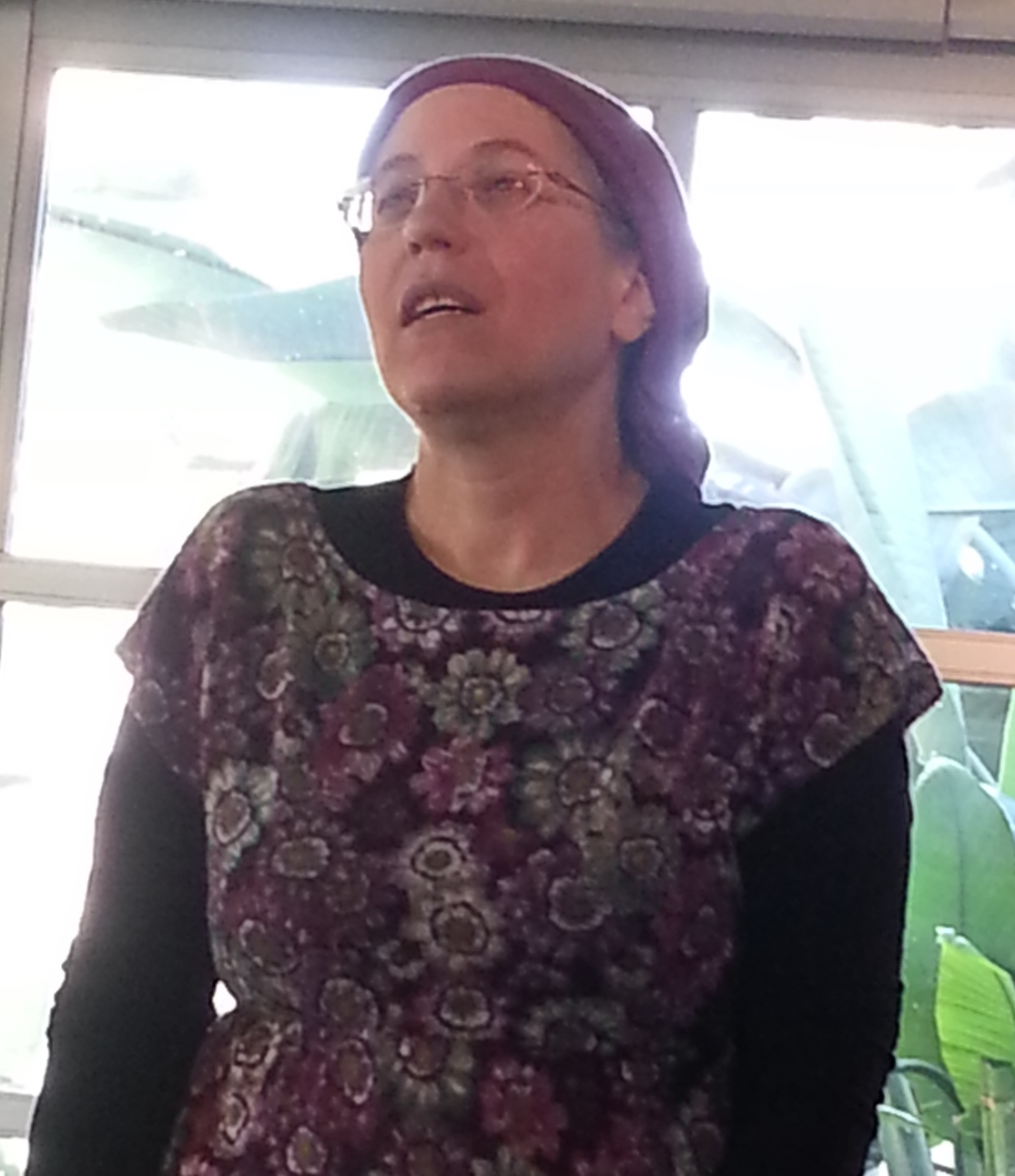 MK Orit Strook of The Jewish Home party, 19th Knesset